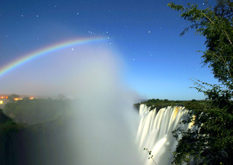 Photo of a Lunar Rainbow taken from the Zambia side of Victoria Falls. The constellation Orion is visible behind the top of the moonbow.